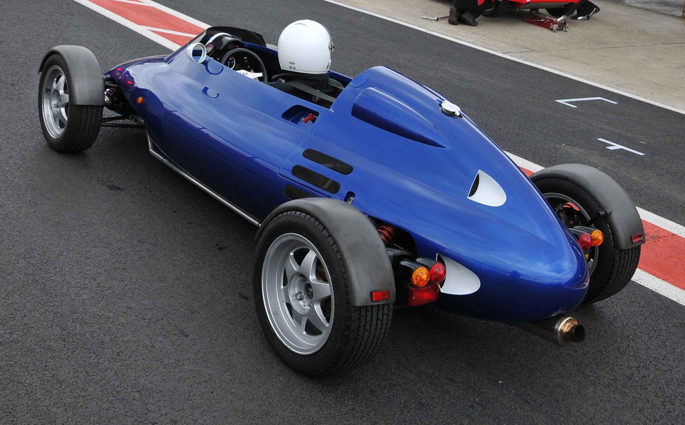 Light Car Company Rocket, Gordon Murray designed motorycle engined sportscar. At the Snetterton Trackday, April 17th 2011.